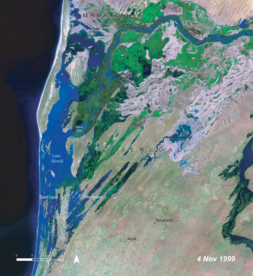 Lake Djoudj (Senegal) during the Nov. 1999 flood In August 2006, the United Nations Environment Programme (UNEP), released an atlas entitled: "Africa's Lakes: Atlas of Our Changing Environment." The atlas relies heavily on Landsat imagery from the past 34 years to show changes in lakes around the African continent. Above, are two Landsat images of the Djoudj Sanctuary in Senegal that are featured in the atlas. The atlas tell us: "Situated in the Senegal river delta, the Djoudj Sanctuary is a wetland of 16 000 ha, comprising a large lake, referred to as Lake Djoudj in this publication, surrounded by streams, ponds and backwaters. [These two images show the Djoudj Sanctuary before and after the construction of the Diama Dam." "The image from September 1979 shows the impact of drought on the Djoudj Sanctuary, while] the image from November 1999 shows rejuvenation of the sanctuary wetlands due to the significant floods of that year".